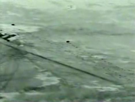 MC-130 droping Rangers during the assault on Objective Rhino